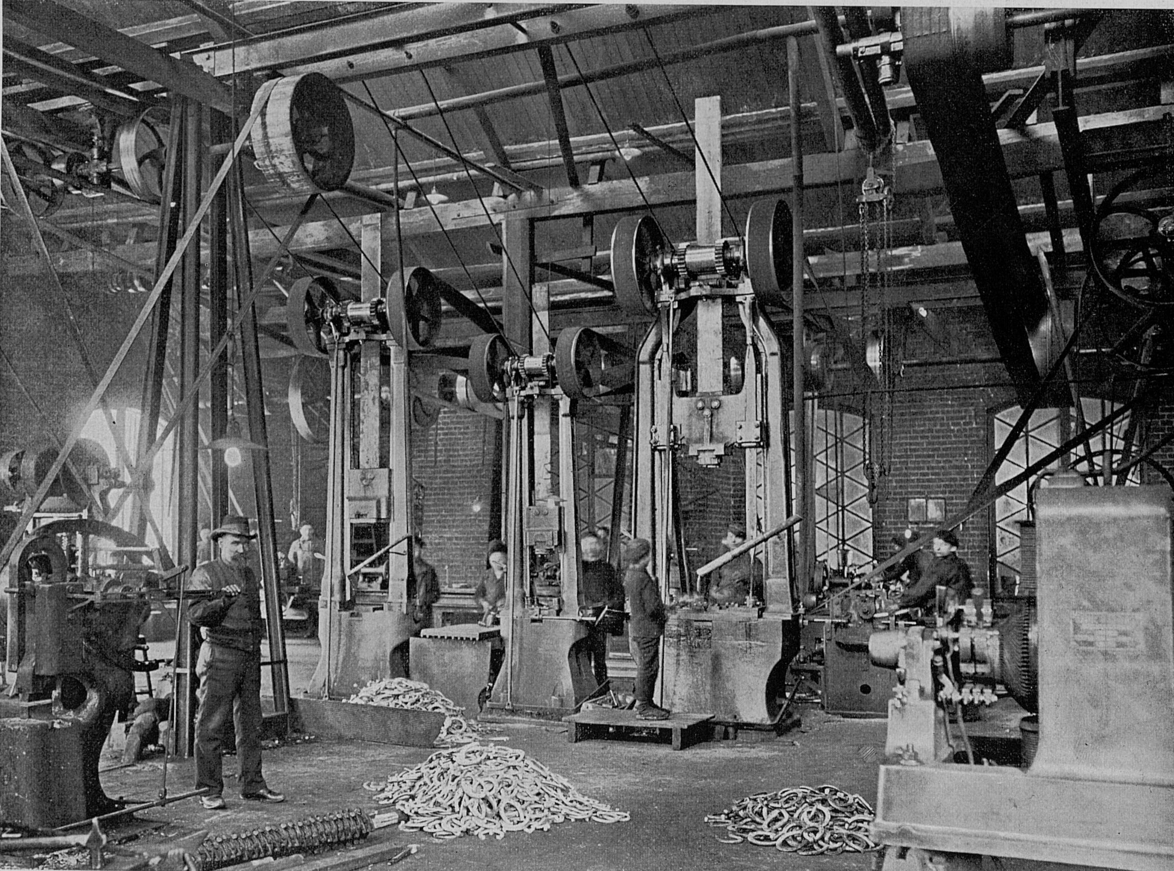 Inha Factory in Inha, Ähtäri, Finland, men and young boys working on manufacturing of horseshoes.